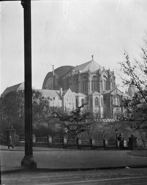 Cathedral of St. John the Divine from 110th St. and Manhattan Ave., New York.Location: New York, NY, US. Date taken: 1920.Full size: 1015 x 1280 pixels (14.1 x 17.8 inches).